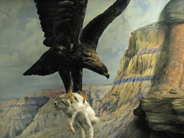 golden eagle? Field Museum Chicago - 3D museum imitation, not a painting